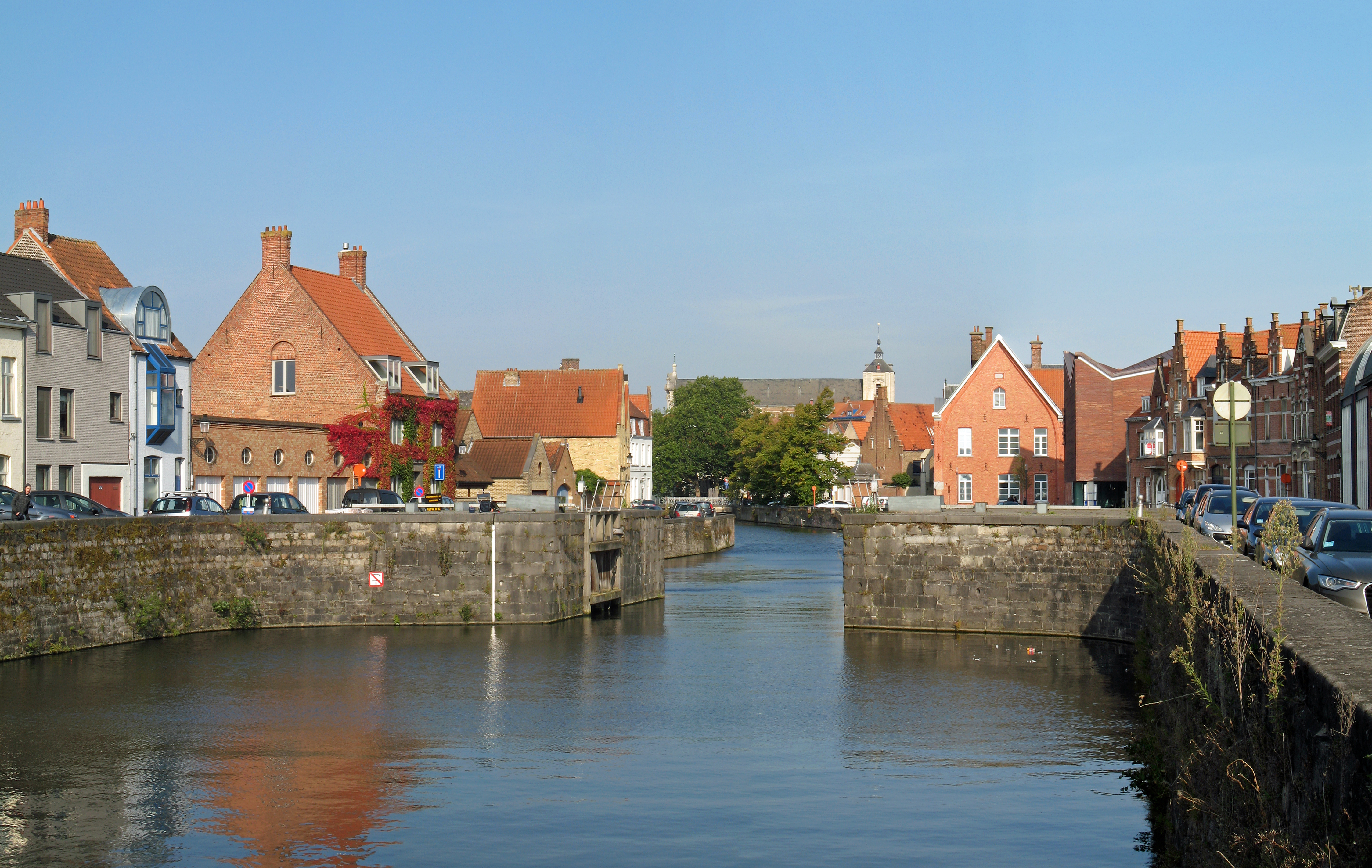 Bruges (Belgium): the Coupure canal and the old lock